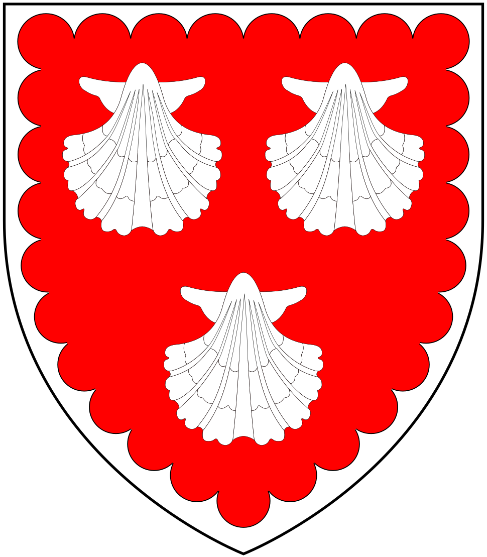 Arms of Erle of Bindon in the parish of Axmouth, Devon and of Charborough, Dorset: Gules, three escallops argent a bordure engrailed of the last (Pole, Sir William (d.1635), Collections Towards a Description of the County of Devon, Sir John-William de la Pole (ed.), London, 1791, p.481). Sir William Pole (d.1635) of Shute, Devon, author of this work, was the uncle of Col. Sir Walter Erle (1586-1665) of Charborough, the son of his sister Dorothy Pole.